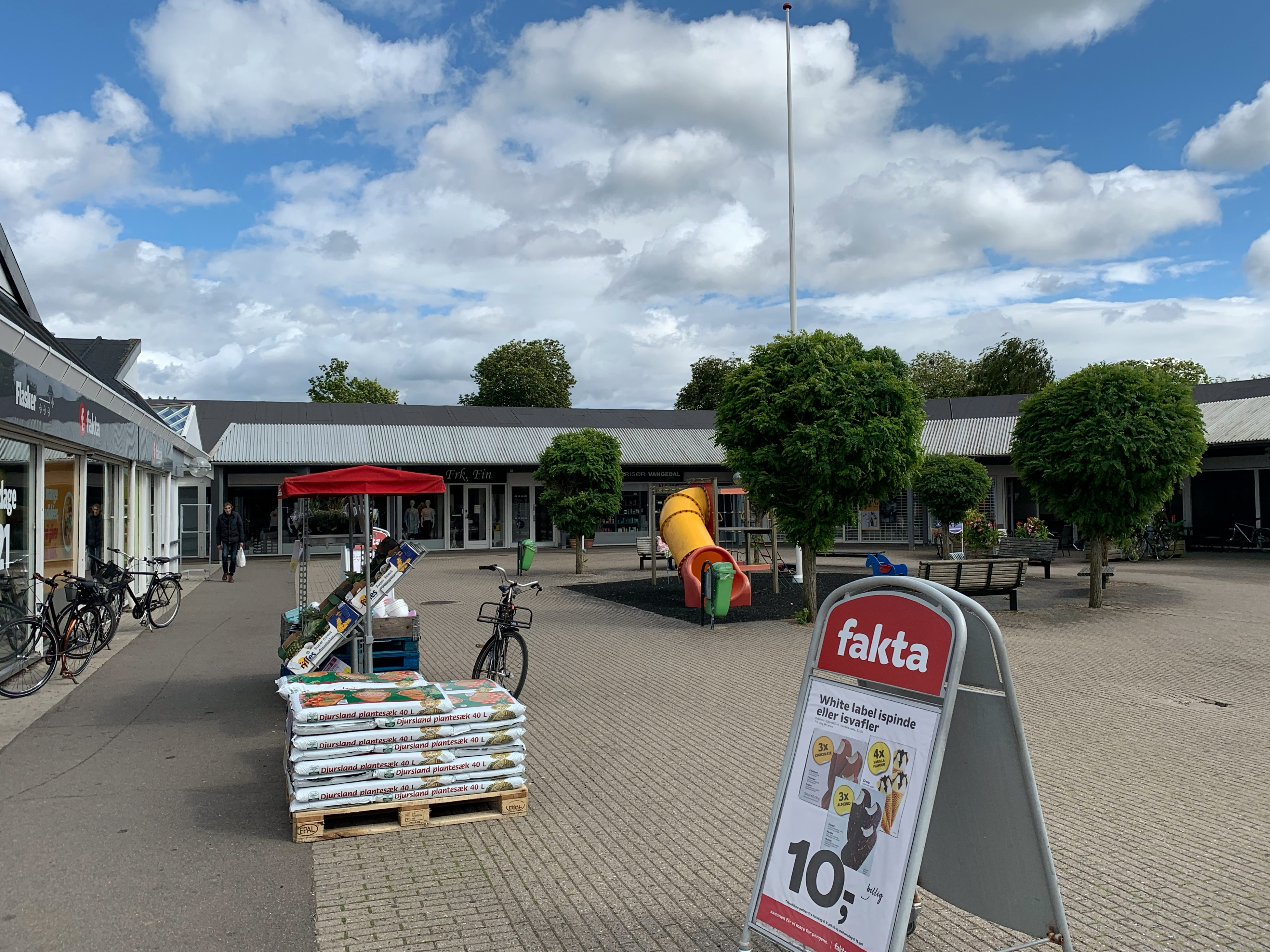 Humlebæk shopping center